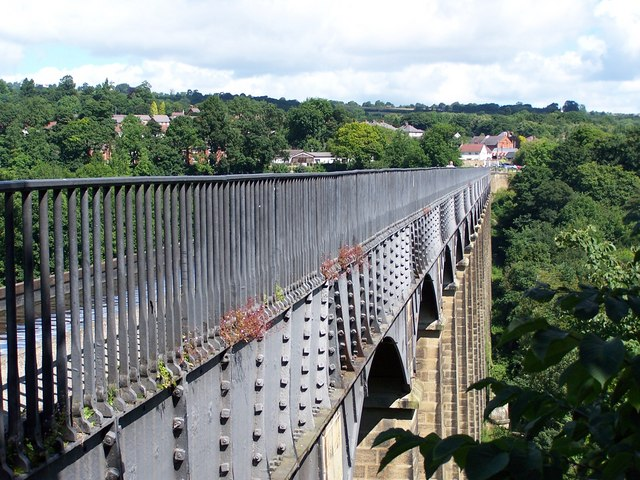 View along Pontcysyllte Aqueduct